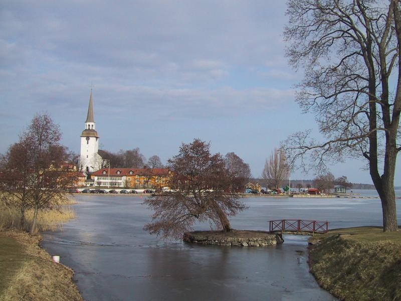 Mariefred 2002-03-17 Author: Stern